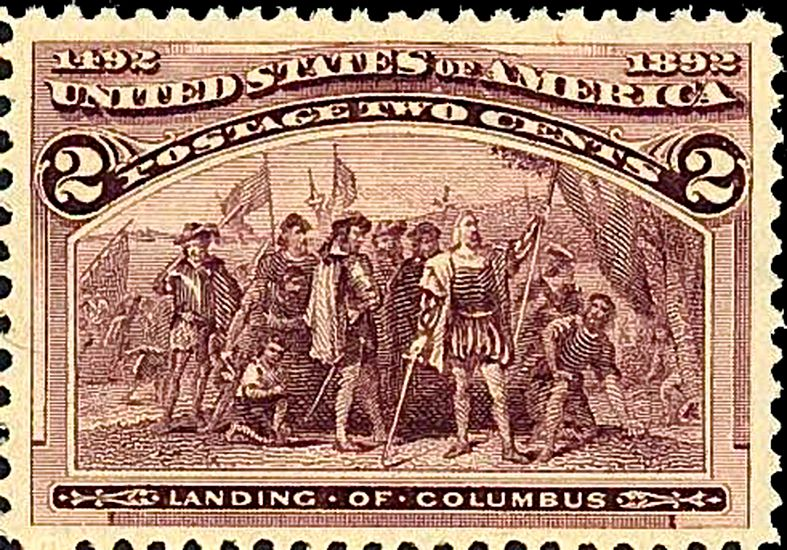 Columbian Issue of 1893. Engraved image on postage after an 1842 painting by Vanderlyn, 'Landing of Columbus'.